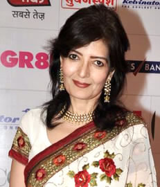 Sonu Walia at 'GR8! Women Awards 2013'